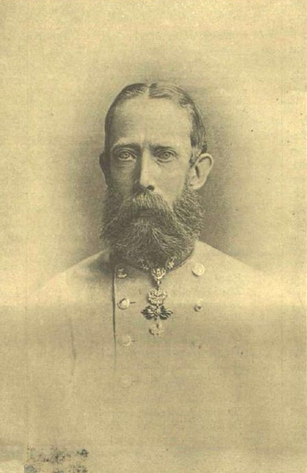 Archduke Ludwig Viktor of Austria